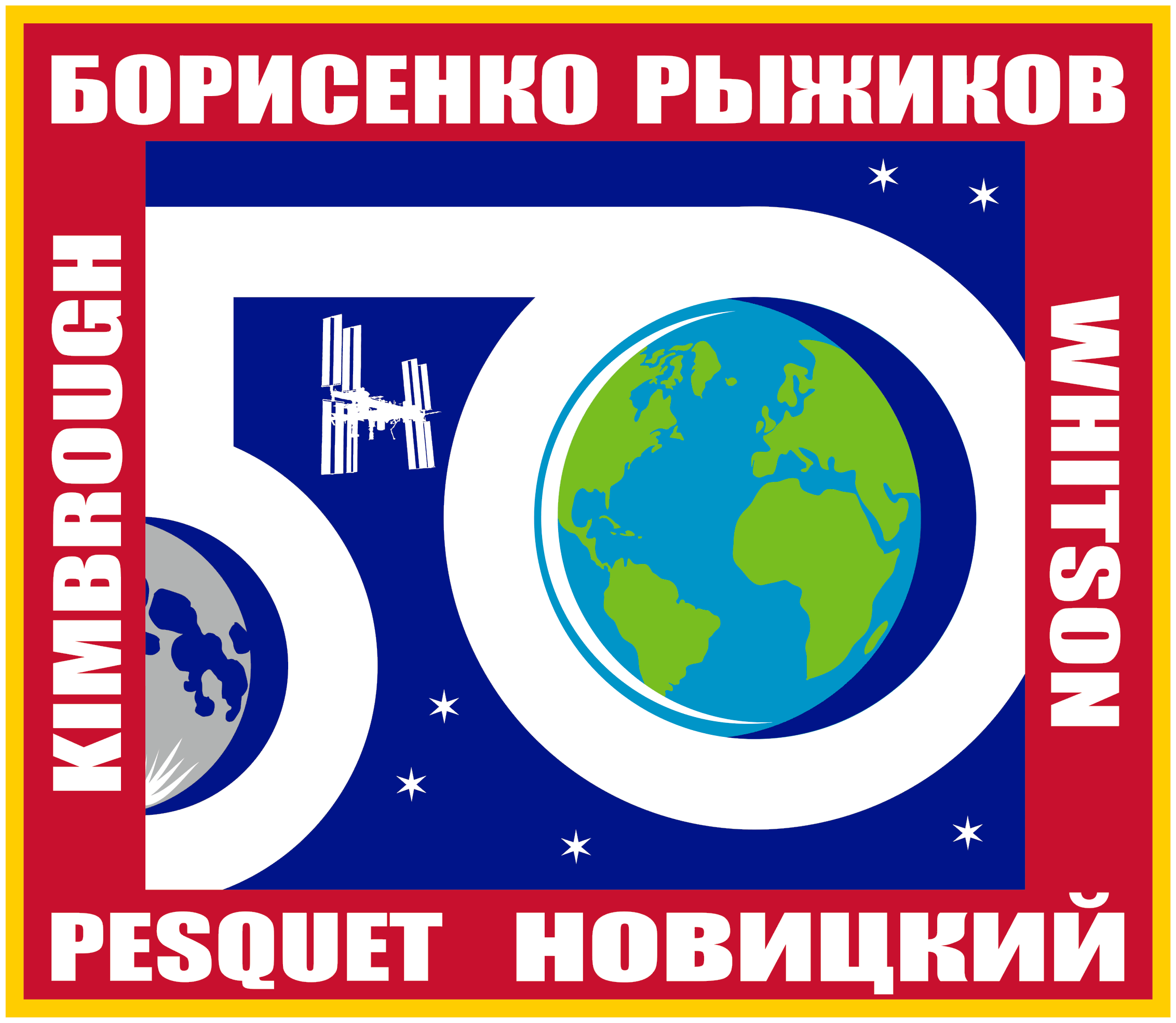 Official crew Patch of Expedition 50 on the International Space Station. The Expedition 50 patch encompasses the spirit of human exploration from previous missions to the moon to current exploration on the International Space Station (ISS). The red border symbolizes future human exploration of Mars – the Red Planet. Our home planet Earth is prominent in the patch to remind us that everything done on the mission is to help people on Earth – “Off the Earth, For the Earth.” The background colors of red, white, and blue represent the national colors of all six crew members – United States, Russia, and France. The six stars represent the families of all six crewmembers. Finally, the numeral 50 signifies the 50th Expedition to the ISS.